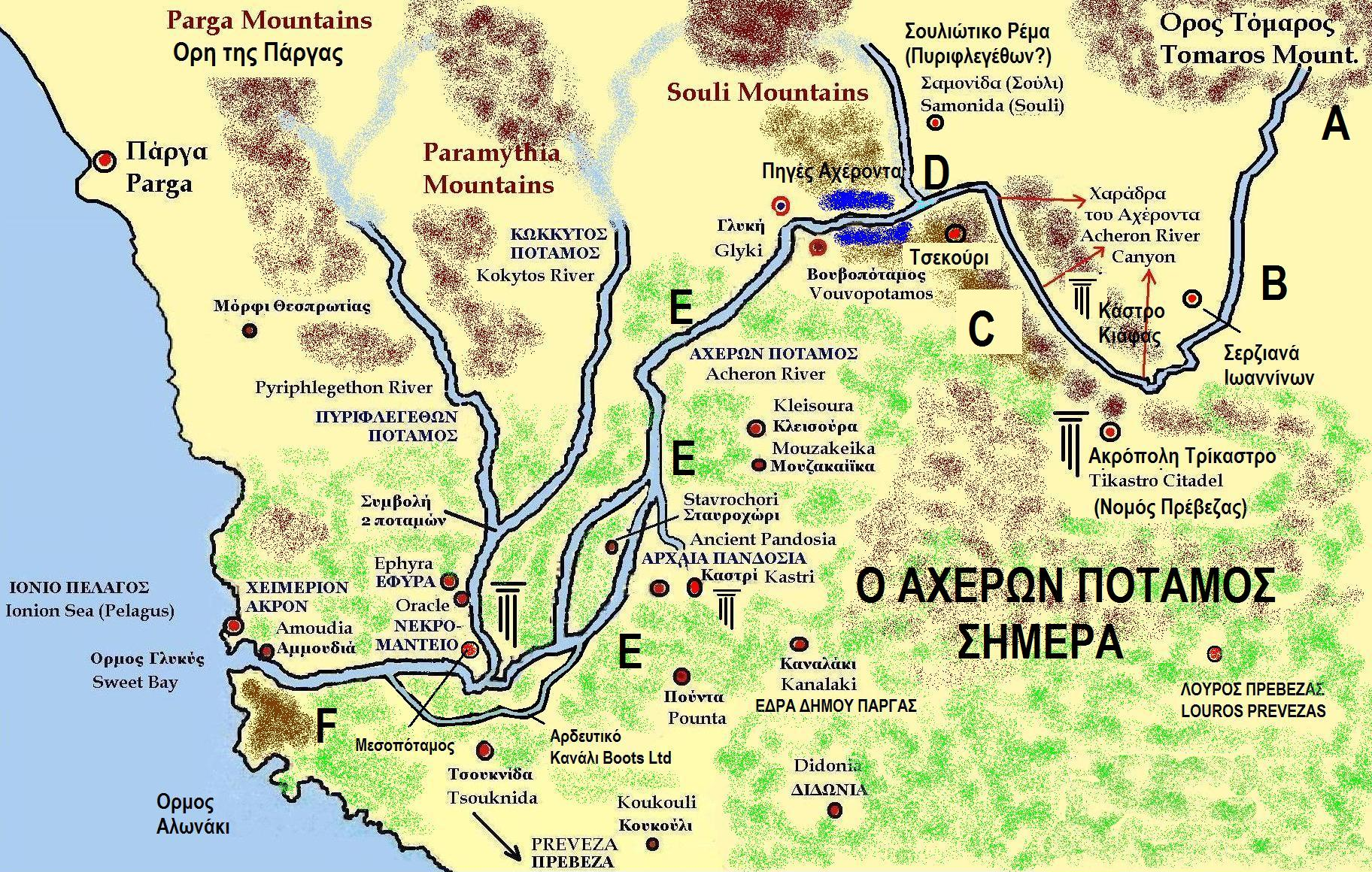 Acheron River today